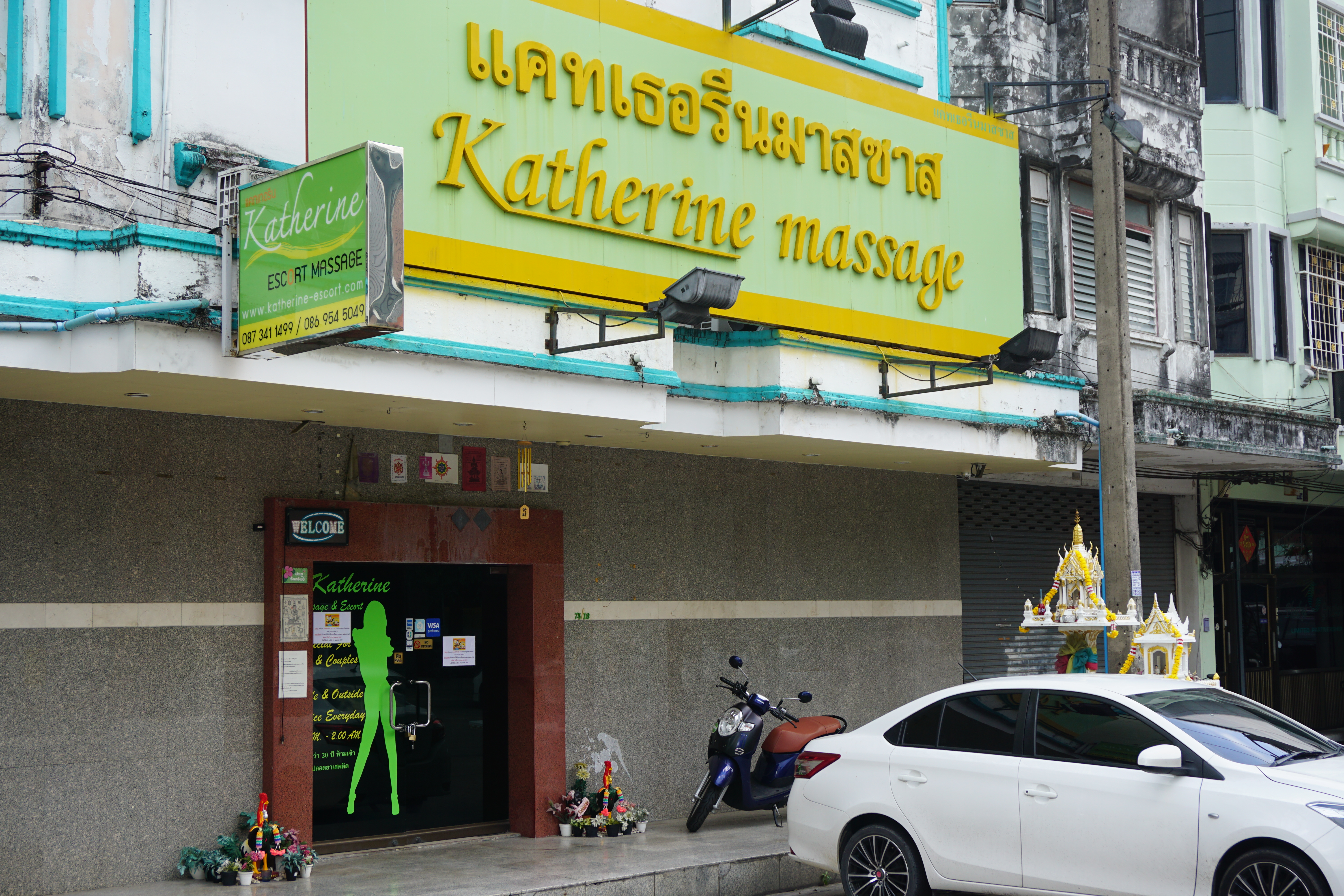 Katherine is located at Punpon Night Plaza (near the Twin Inn hotel) on Punpon Road, Phuket Town